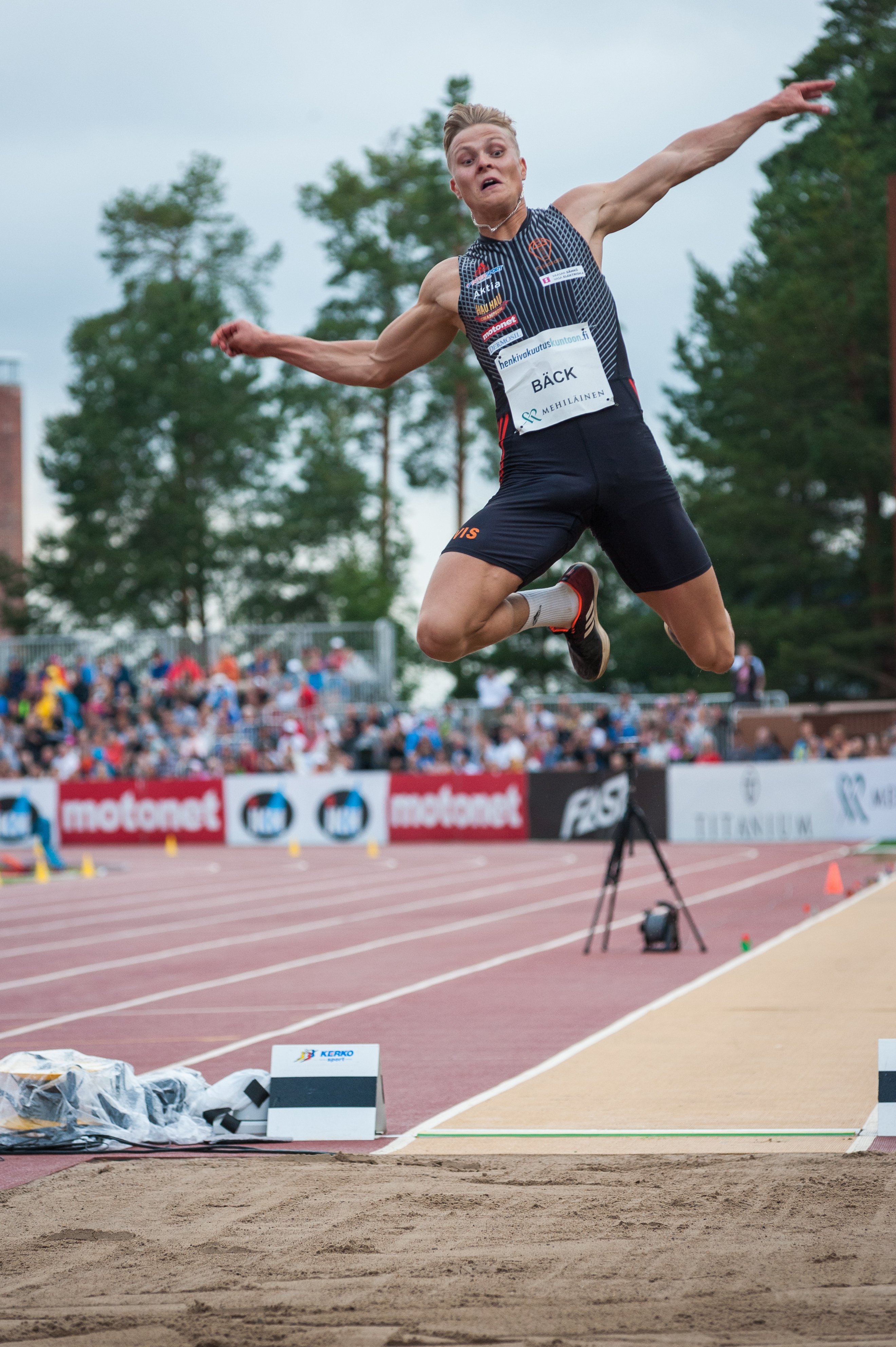 Men's long jump competition at the 2018 Kalevan Kisat, the Finnish championships in athletics, in Jyväskylä, Finland.